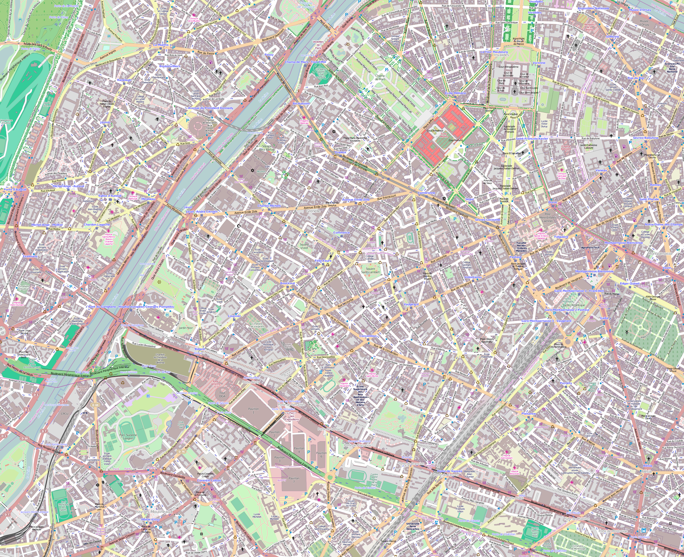 Map Paris 15th arrondissement.